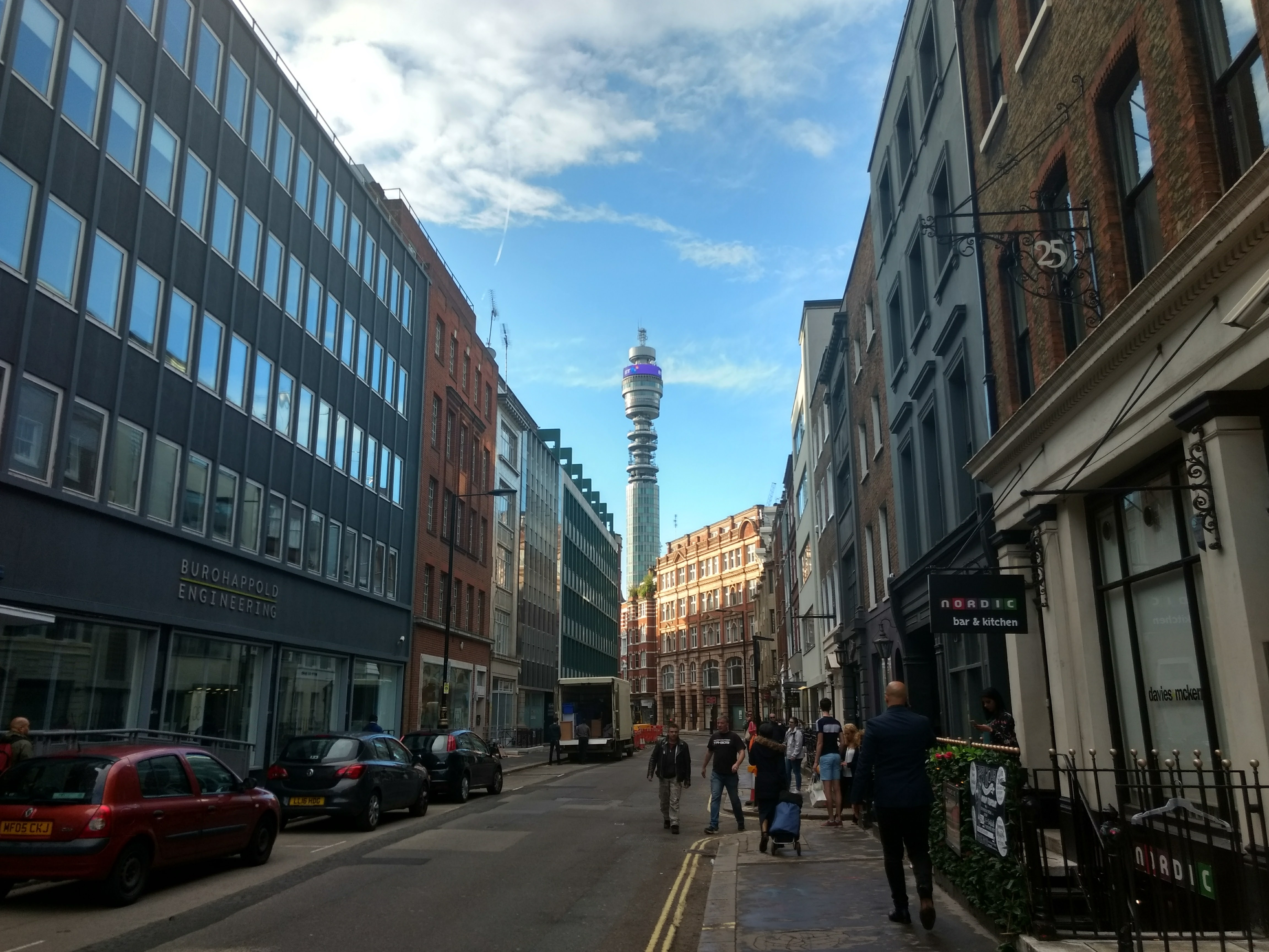 In London. 64, Newman Street, the fourth building on the left, was headquarters for British technology company Logica plc during the 1970s and 1980s.